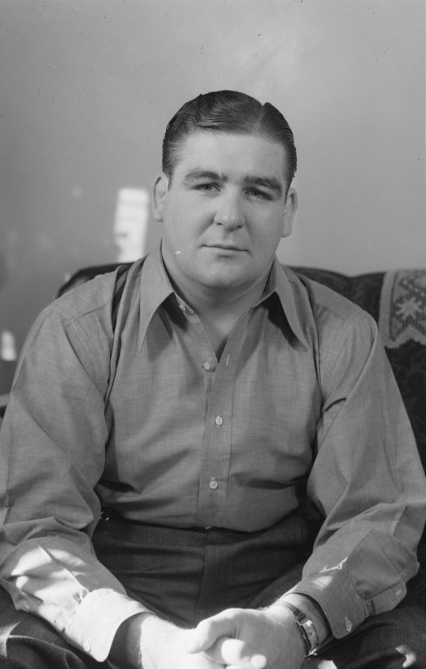 We see Yvon Robert, a professional wrestler.